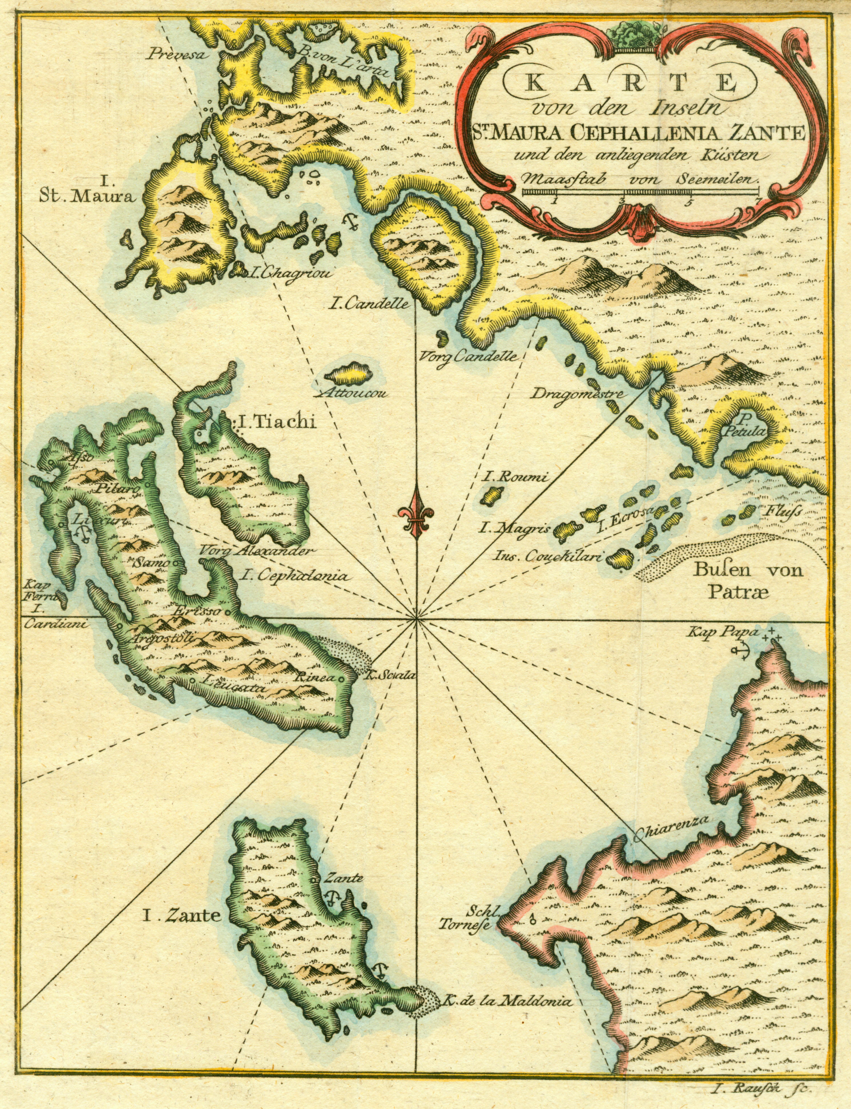 Map of the island of Lefkas, Cephalonia, Zante and the coast of western Greece, drawn by Jacques Nicolas Bellin, in 1797. Copper engraving by I. Rausch, Nuremberg. Nikos D. Karabelas map collection, Actia Nicopolis Foundation, Preveza, Greece.